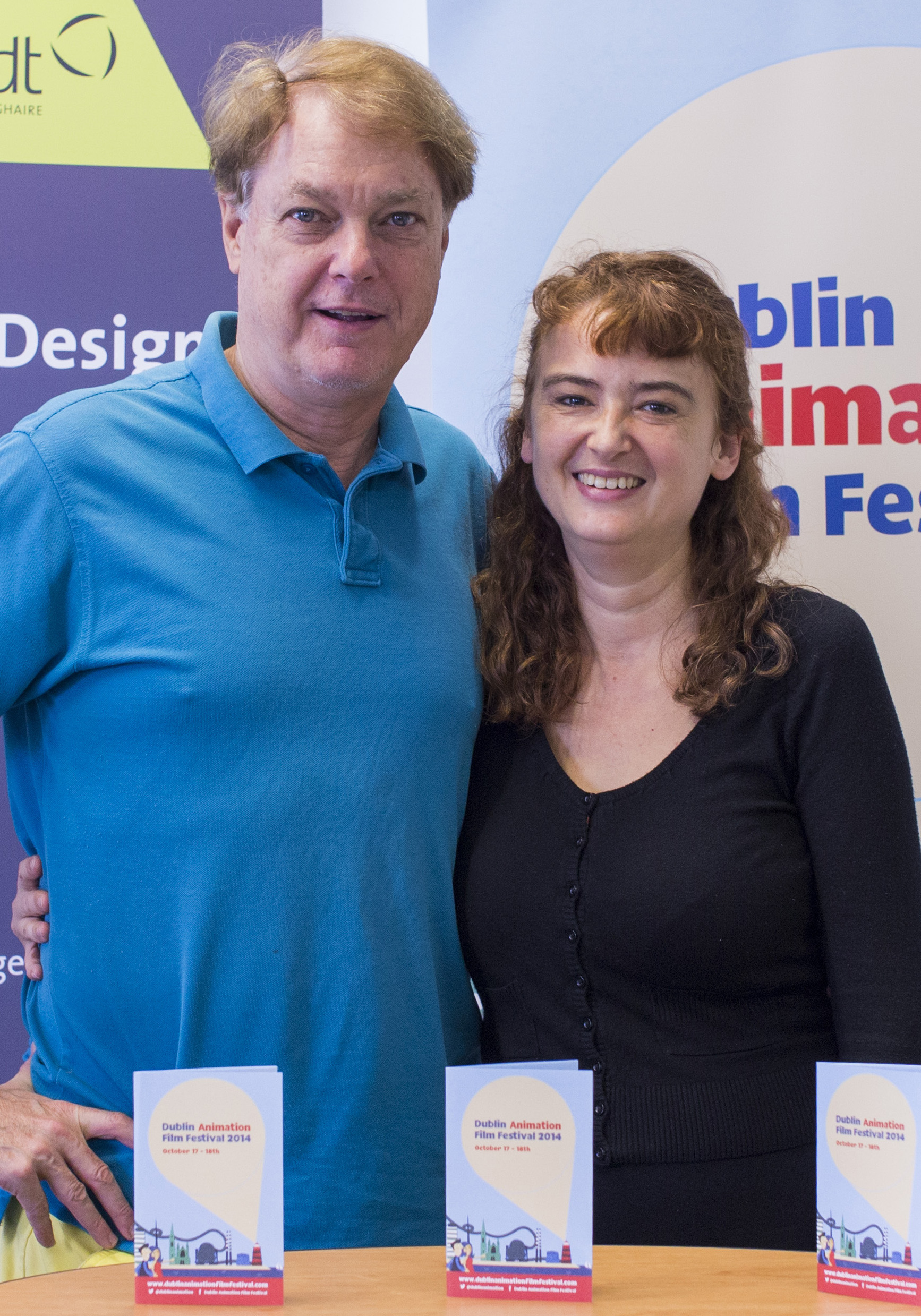 Bill and Sandrine Plympton at IADT in Dublin, Oct. 2014